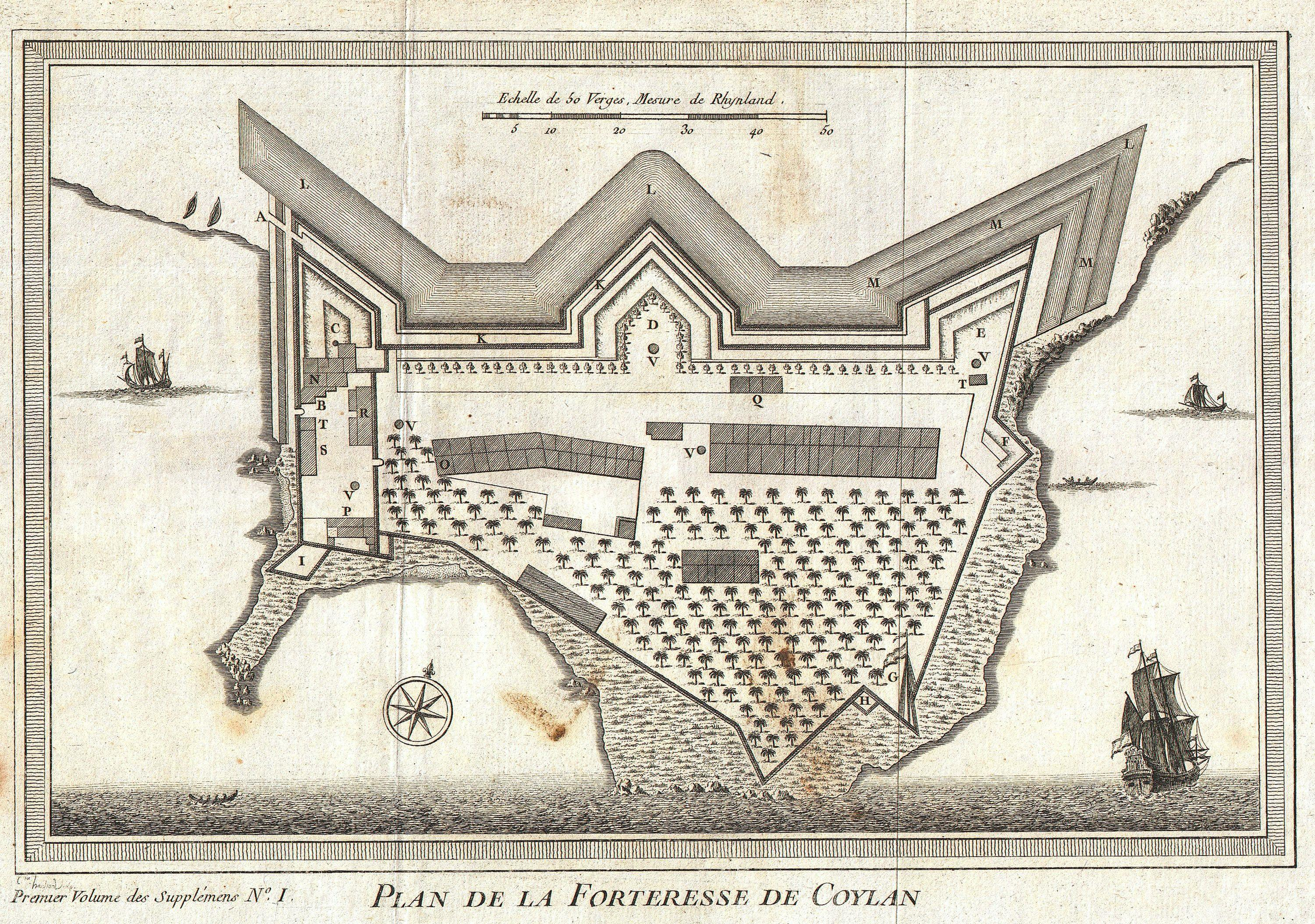 This is a rare 1756 map of the fort of Kollam, Kerala, on India’s Malabar Coast by French cartographer N. Bellin. Kollam, or as it is otherwise Known Quilon or Coylan, lies roughly 71 km north of Trivandrum, India. Kollam Fort was originally built by the Portuguese, however, it was captured by the Dutch in 1671 and by the British in 1795. This map presents beautiful image of the fort completely with palm forests and sailing ships navigating the surrounding seals. Prepared by N. Bellin for issue in the 1757 edition of A. Provost’s L`Histoire Generale des Voyages .